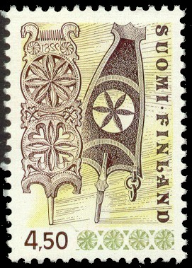 Postage stamp depicting decorated components of traditional Finnish spinning wheels (rukinlapa)